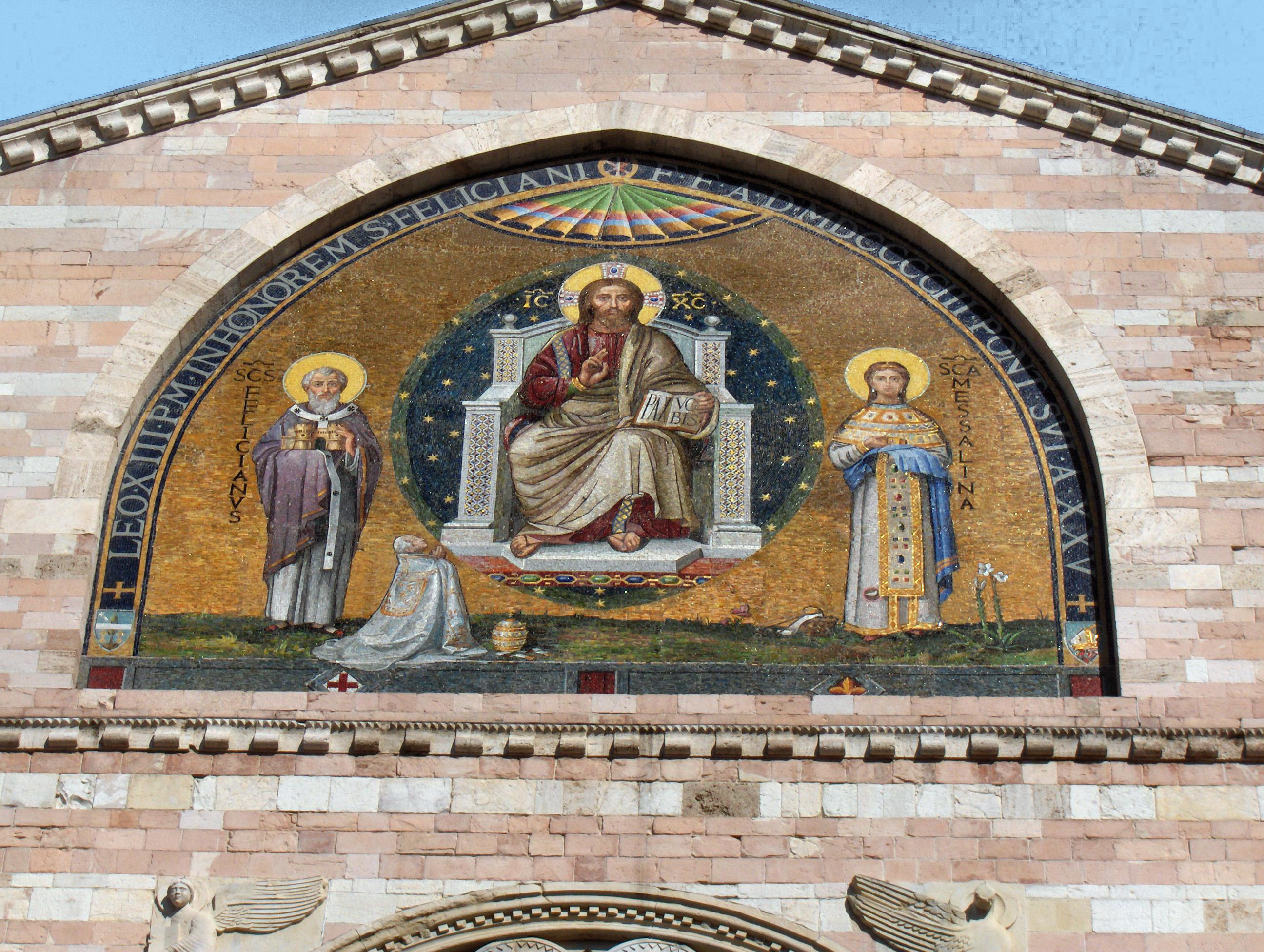 Mosaic with the throned Christ, St. Felicianus, St. Messalina and Pope Leo XIII; façade of the Cathedral of San Feliciano, Foligno, Italy